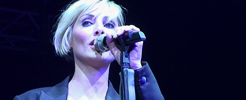 Natalie Imbruglia live in Bucharest - Romania - November 2008